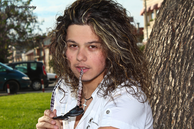 Bobi Mojsovski